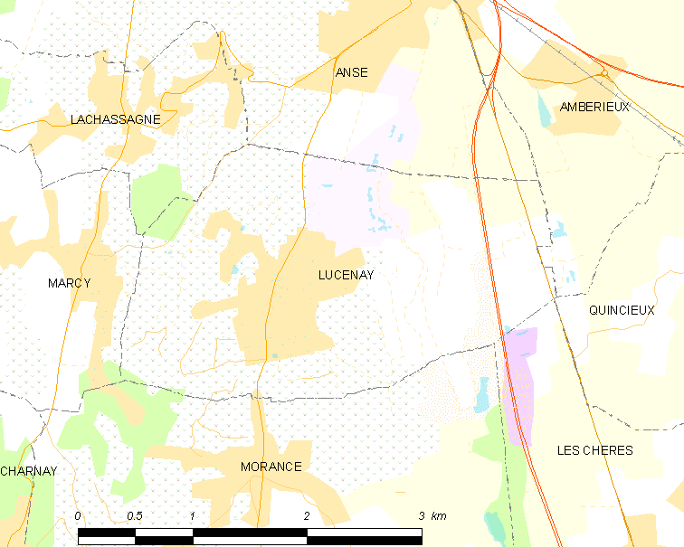 Map of French municipality